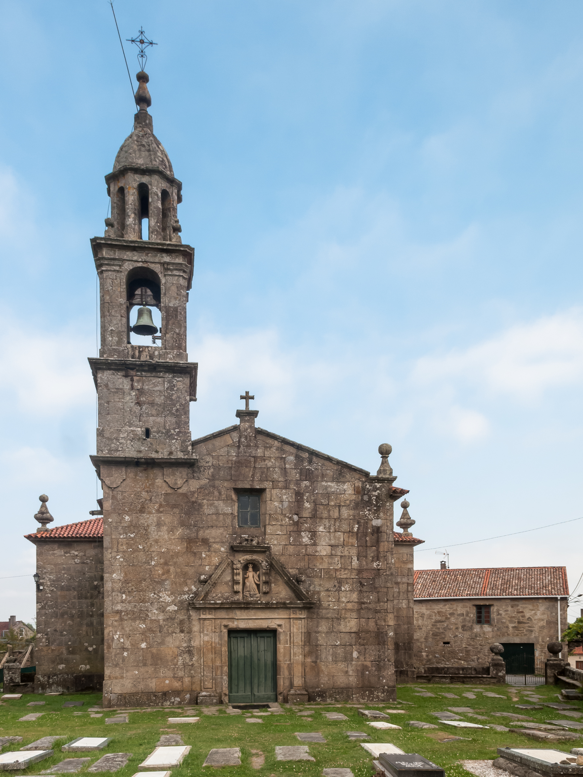 Parish church of Dodro, Dodriño, Dodro, Galicia (Spain)